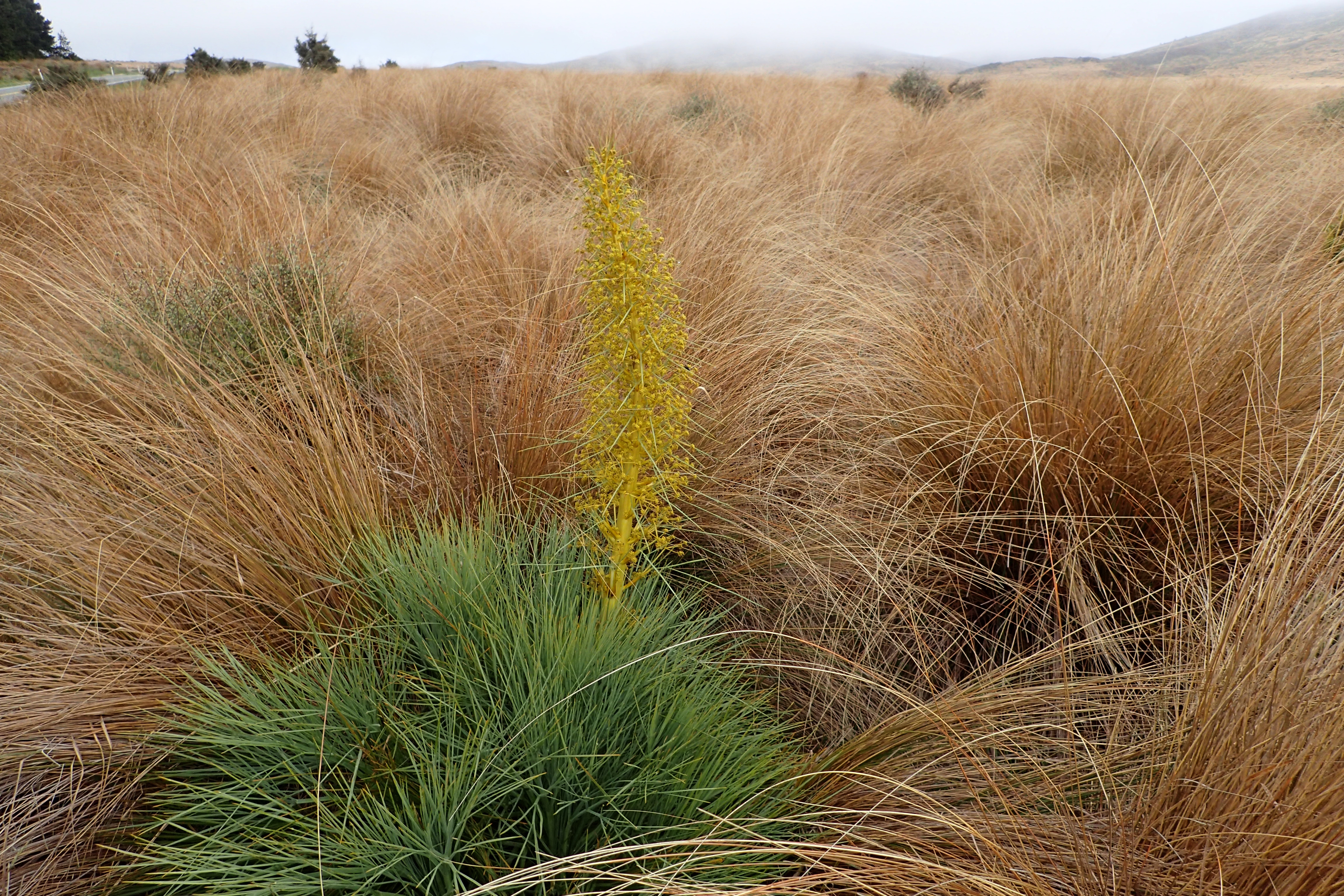 Aciphylla glaucescens in Burwood Bush (Red Tussock) Scientific Reserve near the Key, Southland (New Zealand)